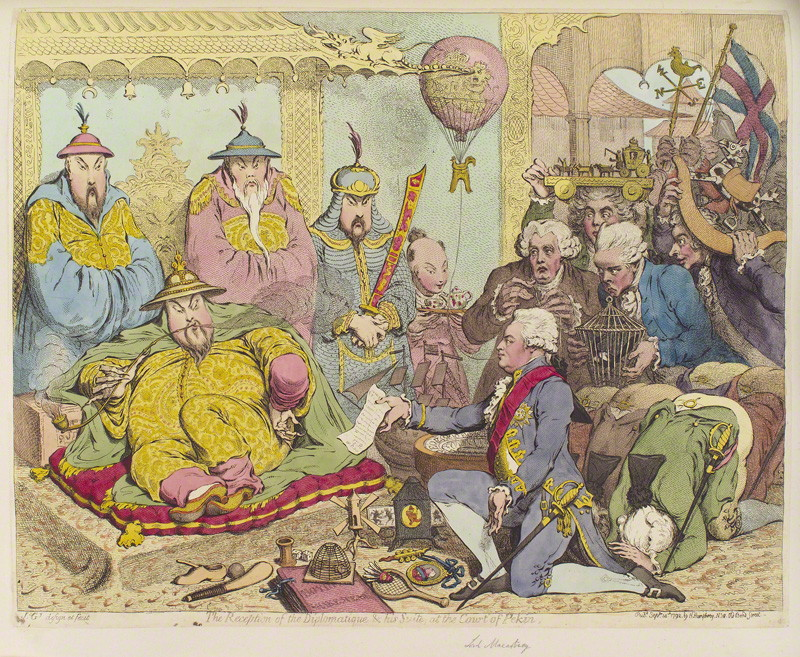 by James Gillray, published by Hannah Humphrey, hand-coloured etching, published 14 September 1792 Portrait of Johann Christian Hüttner at the cour.